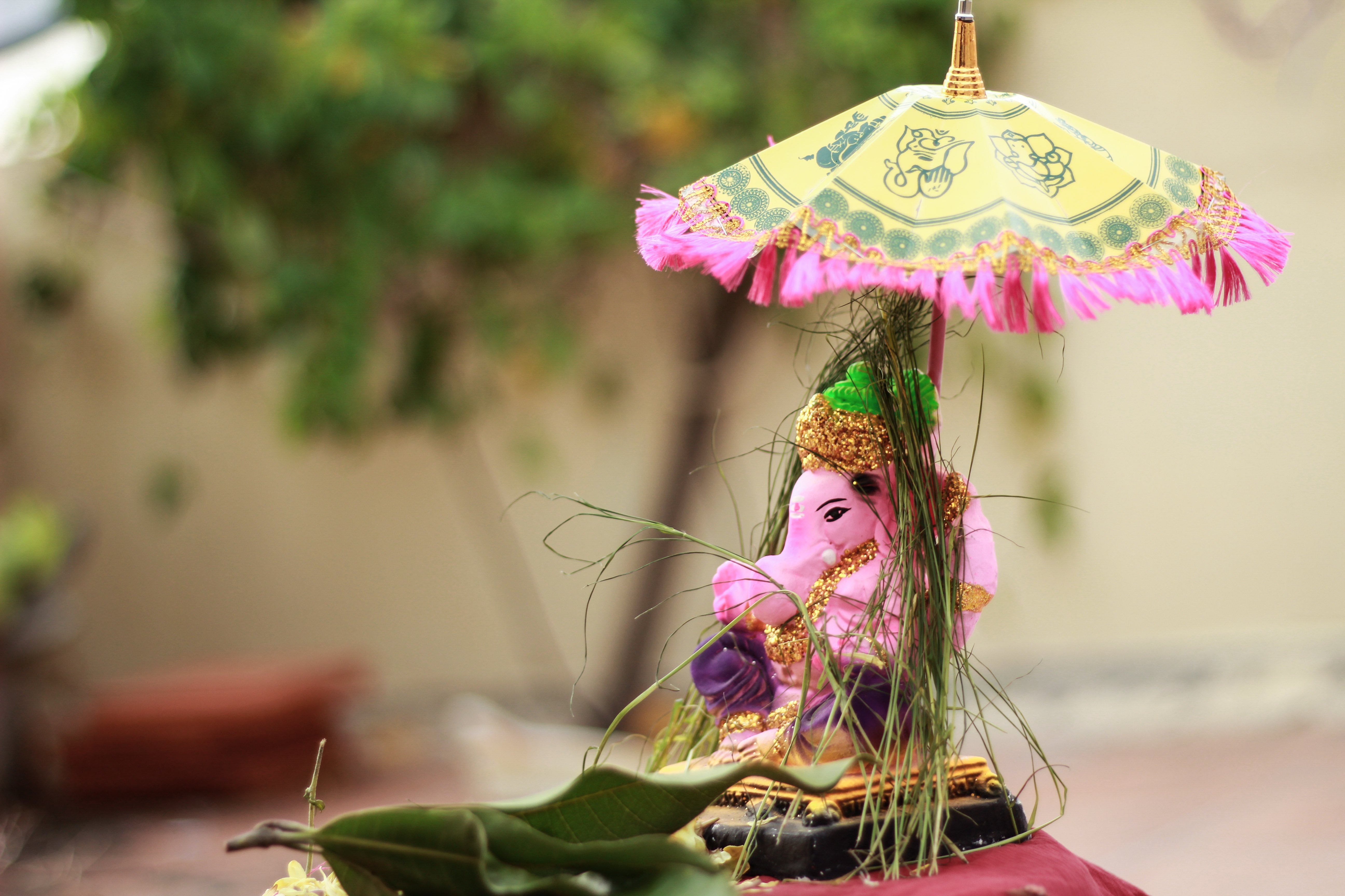 Lord Ganesha on ganesh chaturthi